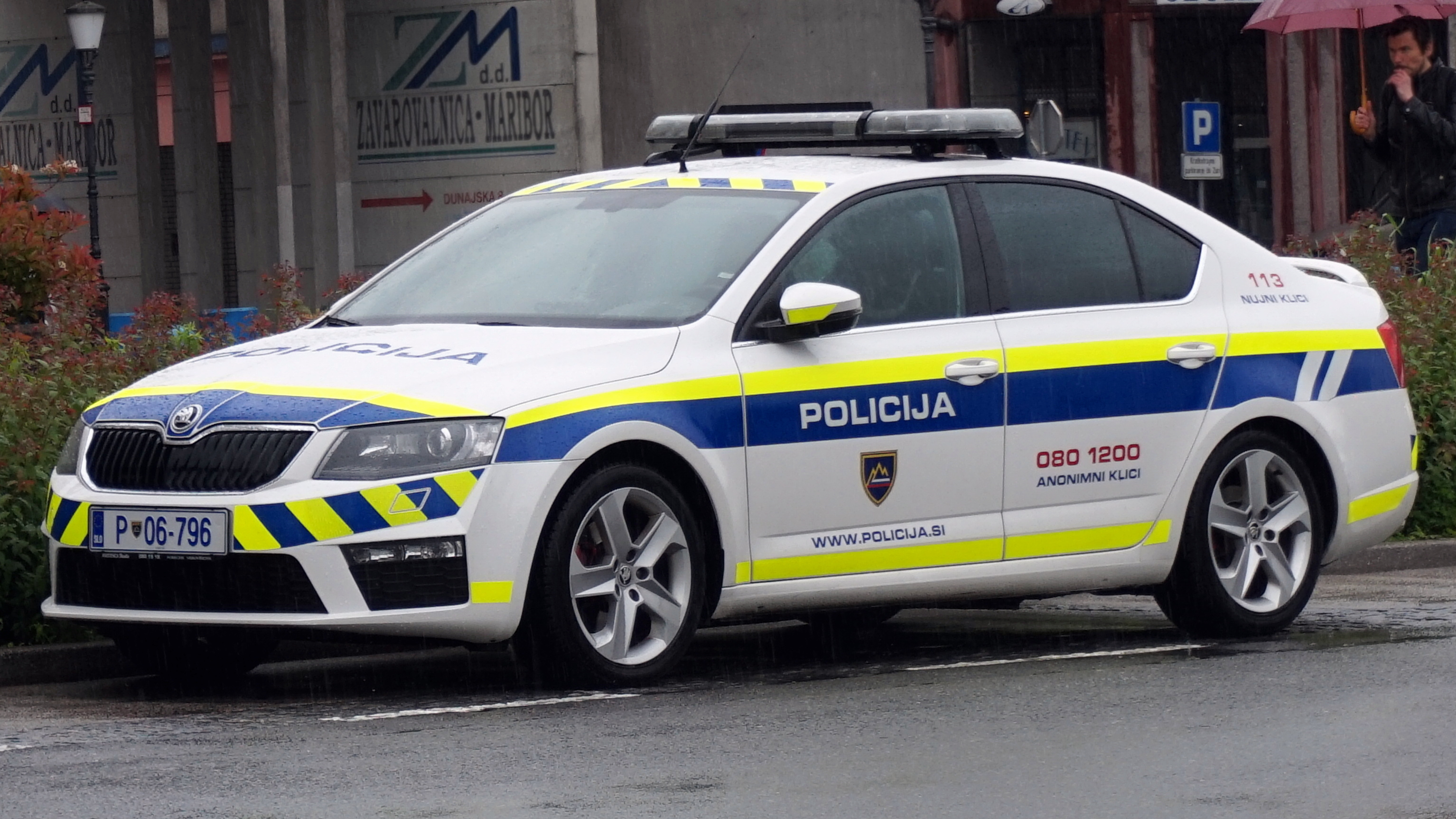 Slovene police car Škoda Octavia III RS